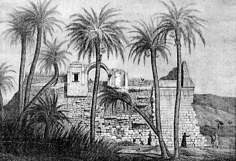 Roman Arch, north side, el-Qasr, el-Bawiti, el-Bahariya, Egypt